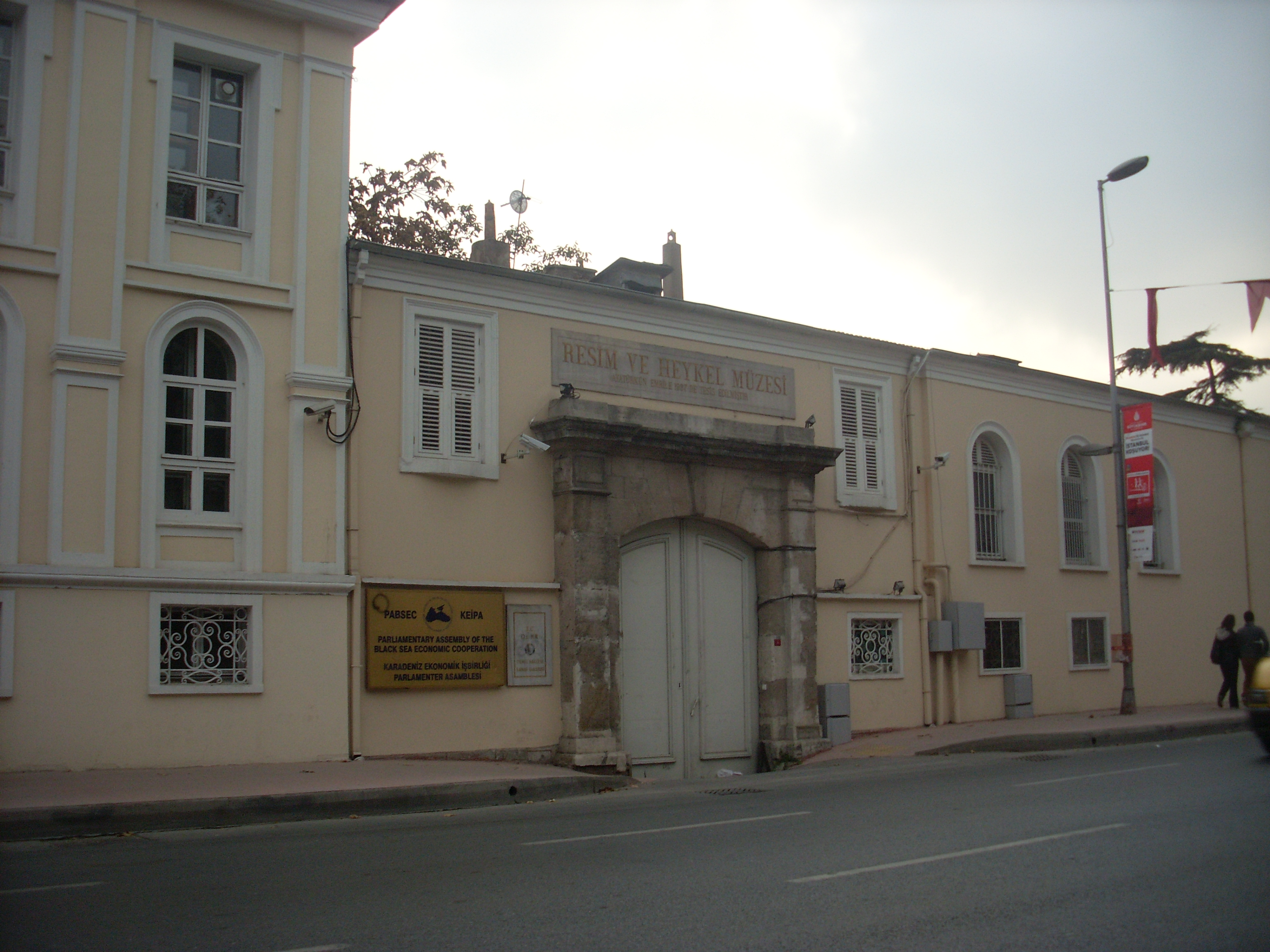 İstanbul Painting and Sculpture Museum